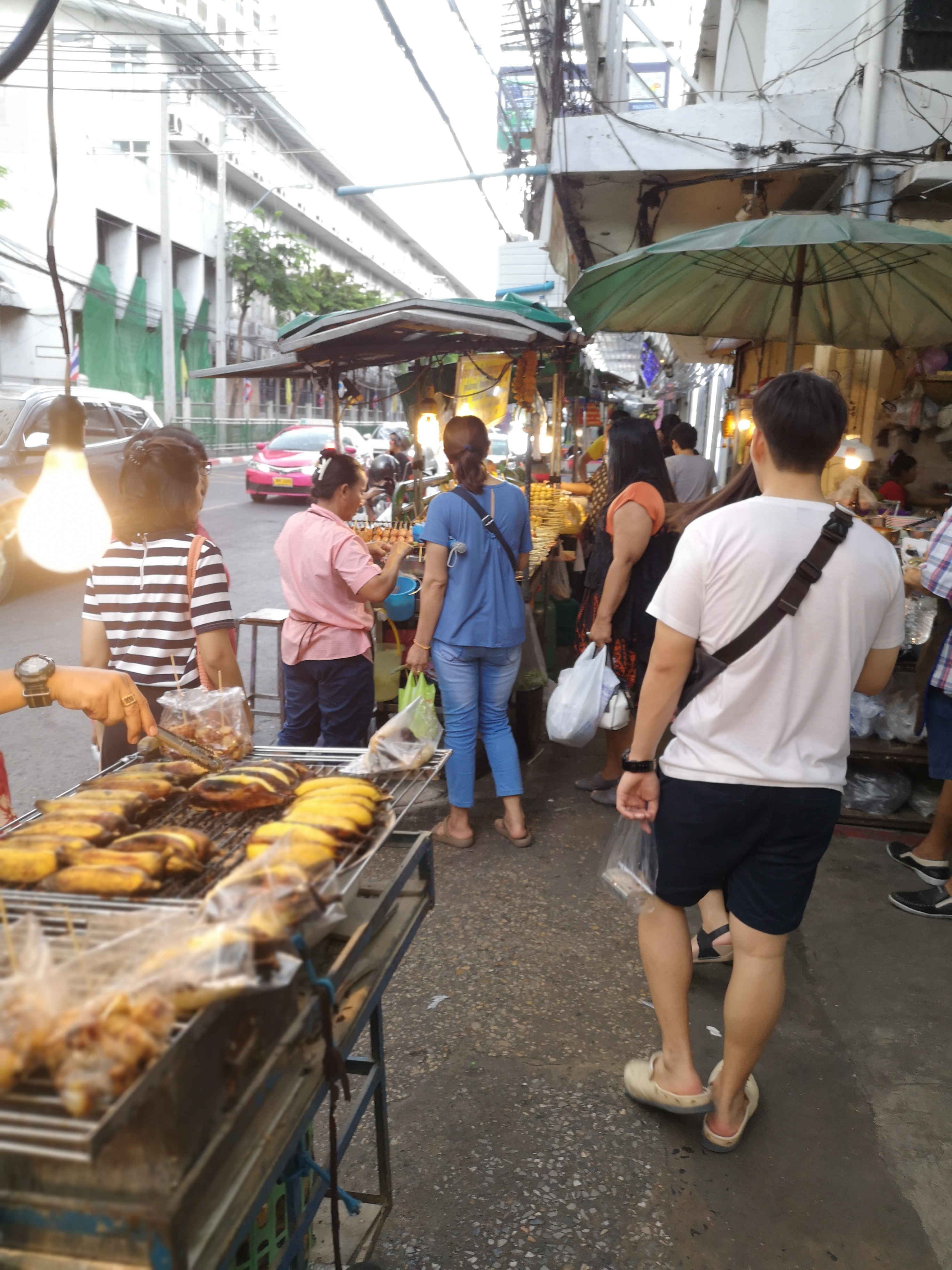 Street food at Wang Lung